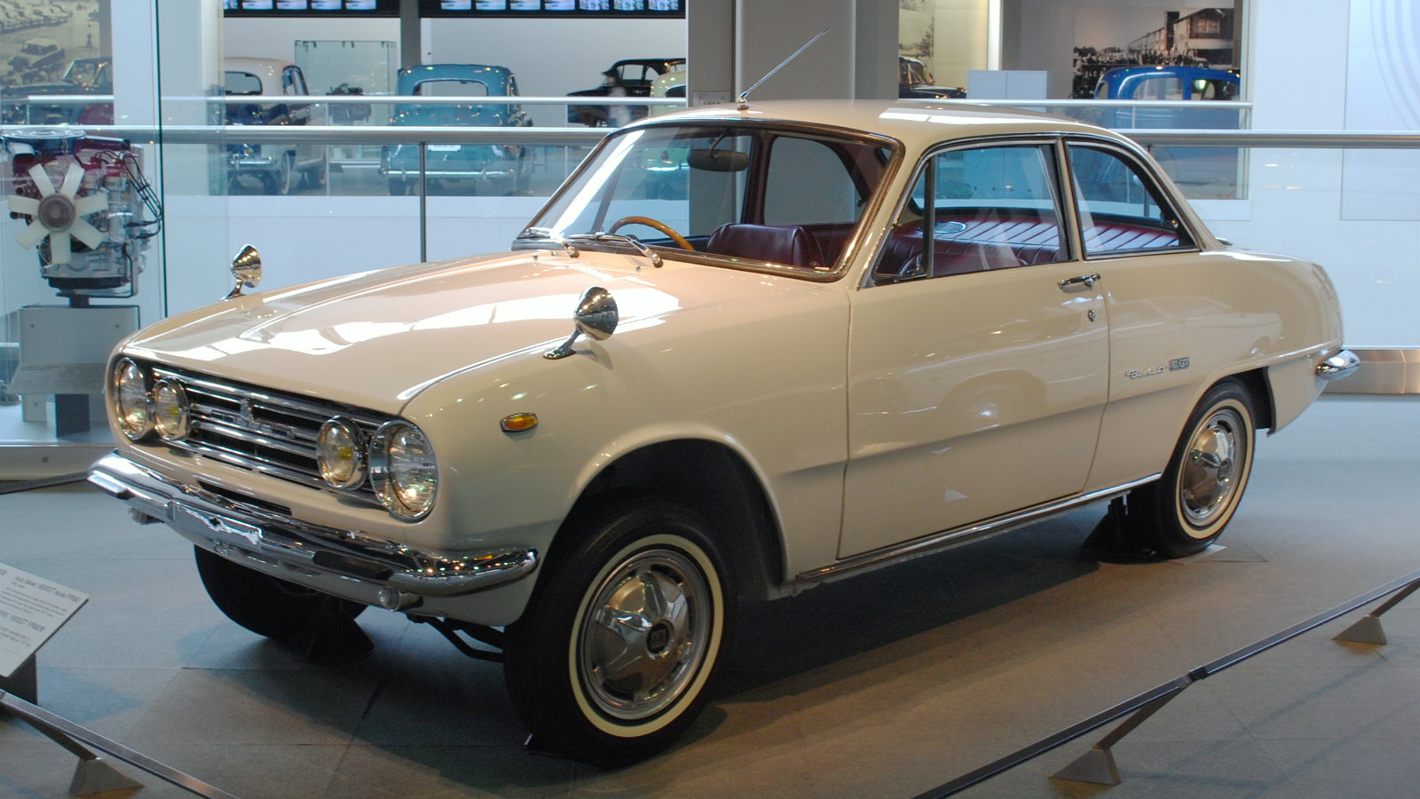 Isuzu_Bellett 1600GT Model PR90